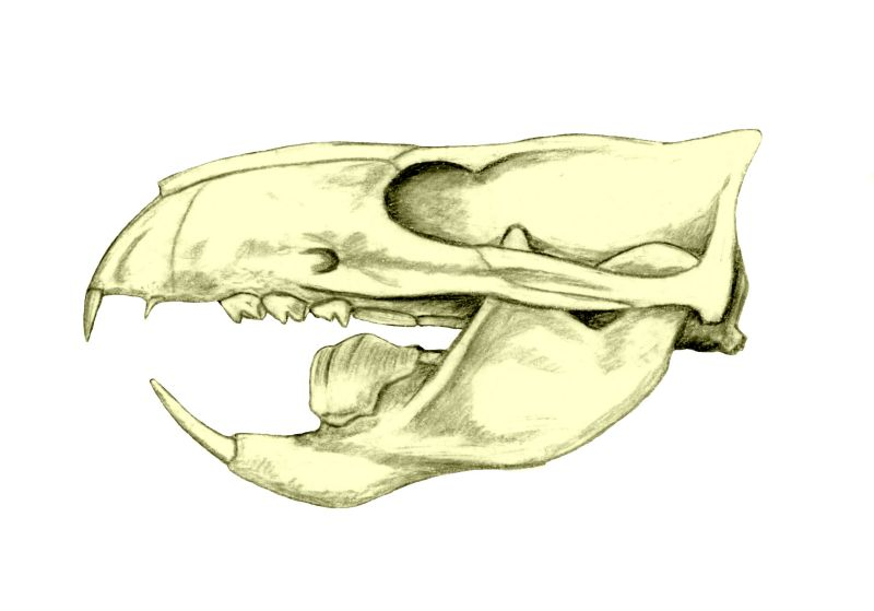 Skull of Ptilodus mediaevus, a paleocene multituberculate, after Vaughan, 1986, pencil drawing